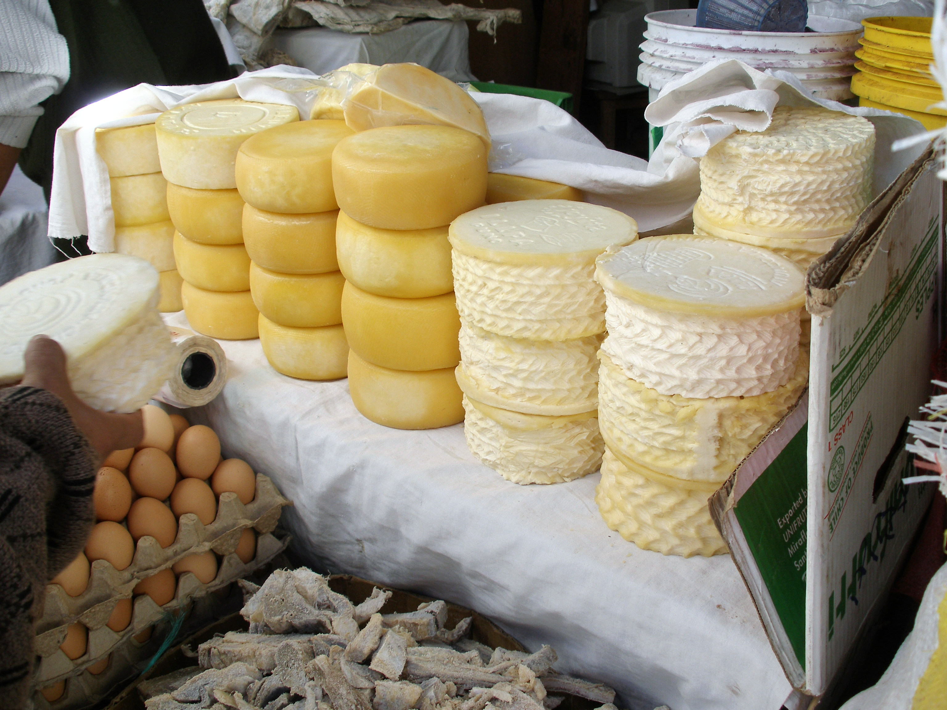 Peruvian cheese sold at an open air market